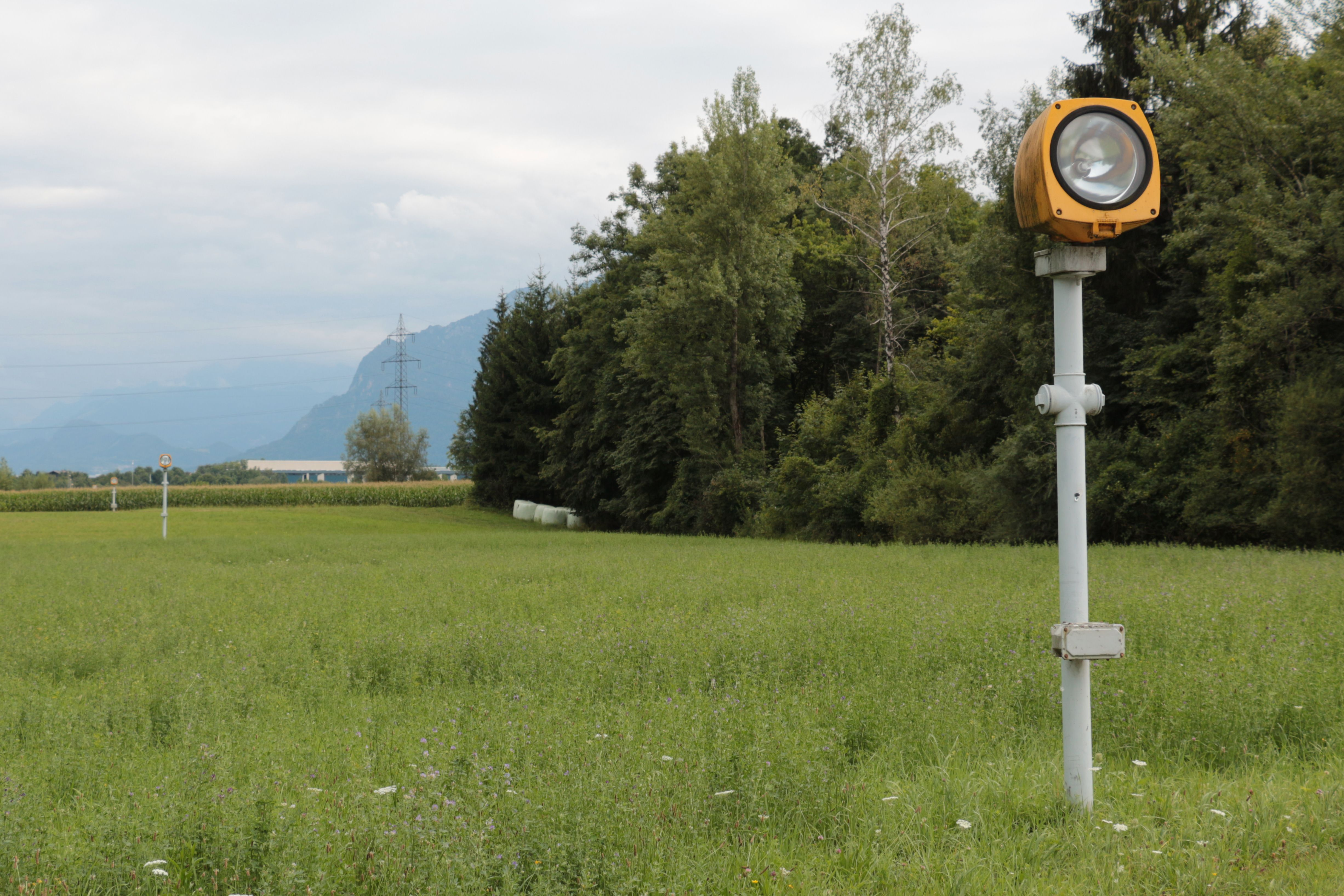 Approach lighting system of Salzburg Airport